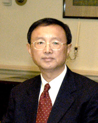 Yang Jiechi (杨洁篪), Foreign minister of the People's Republic of China